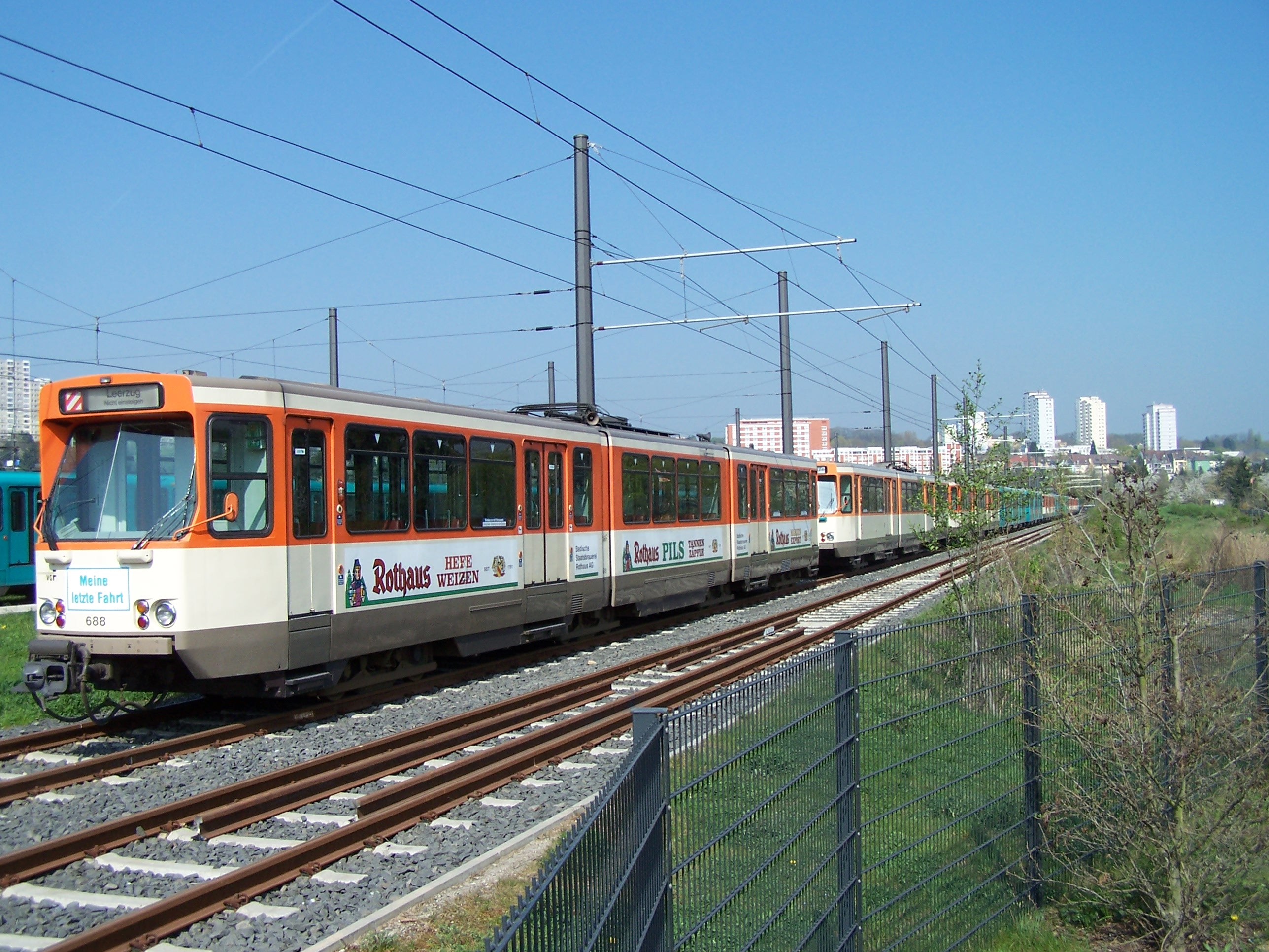 retired Pt-railcars of the VGF in Betriebshof Ost, April 2007